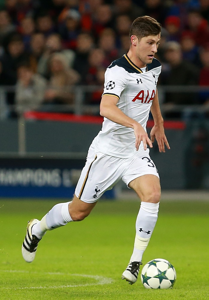 Ben Davies in action for Tottenham Hotpurs FC in a game against PFC CSKA Moscow.